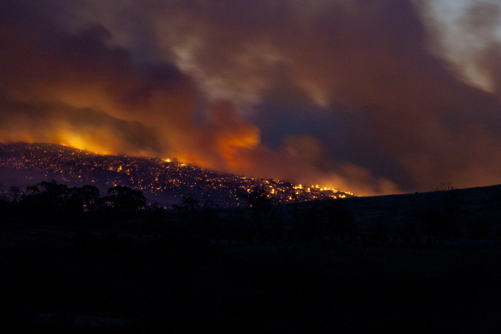 A bushfire rages through the Lake Repulse / Meadowbank area, as seen from the village of Hamilton, Tasmania, January 4th, 2013